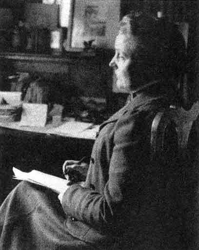 Sarah Orne Jewett (1849-1909)